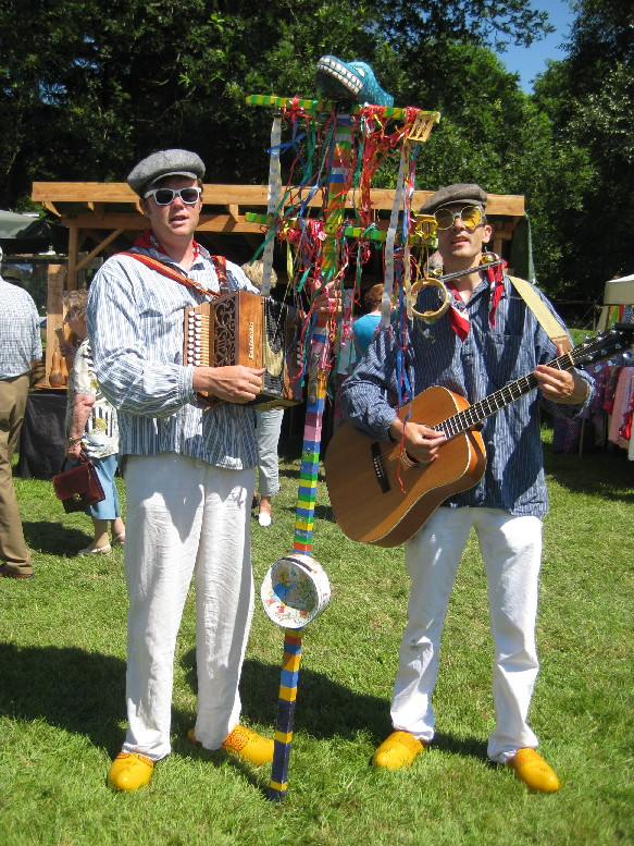 dutch folk music duo De Akoestini's demonstrating te use of a 'Kuttepiel', percussion instrument used in the north of the Netherlands